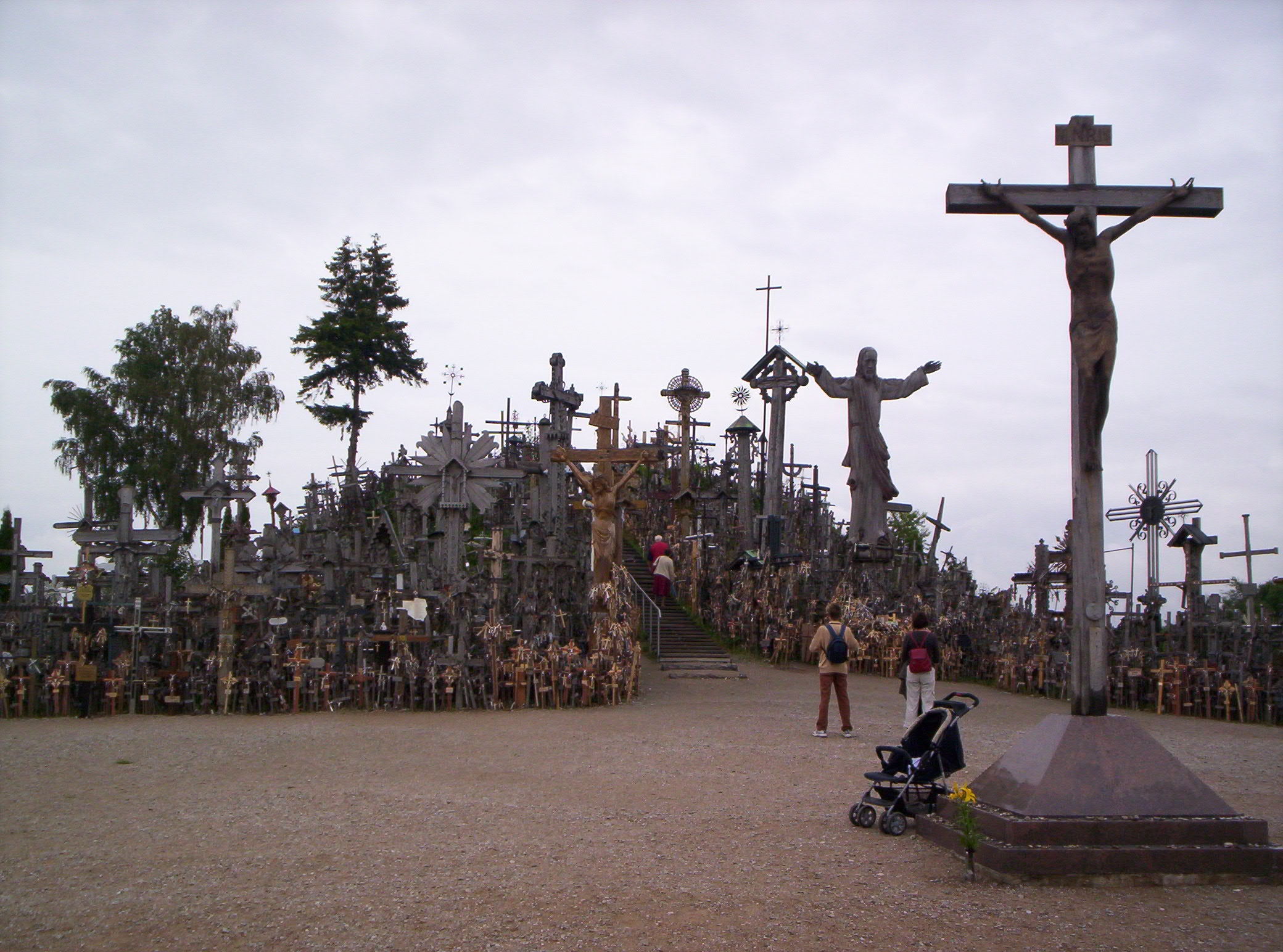 General view of the Hill of Crosses, Lithuania.